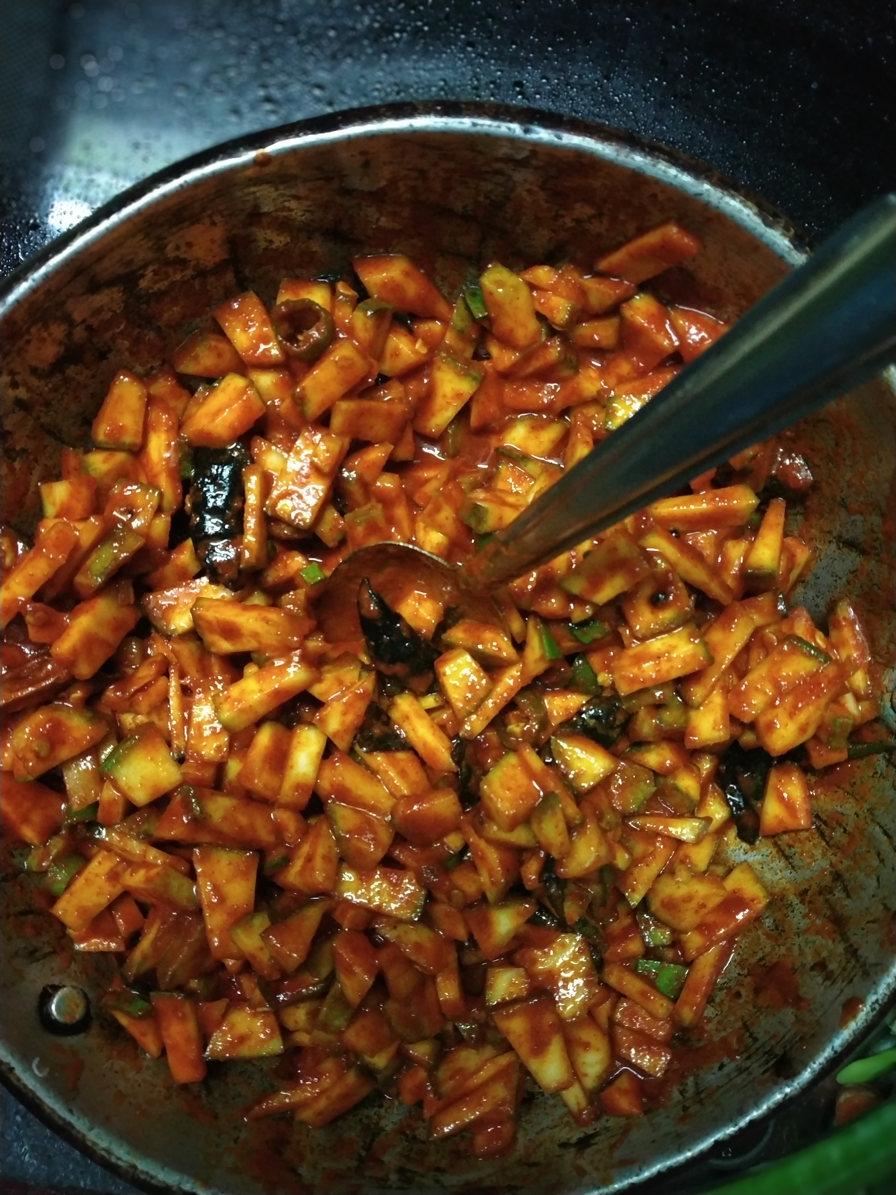 Mango pickle